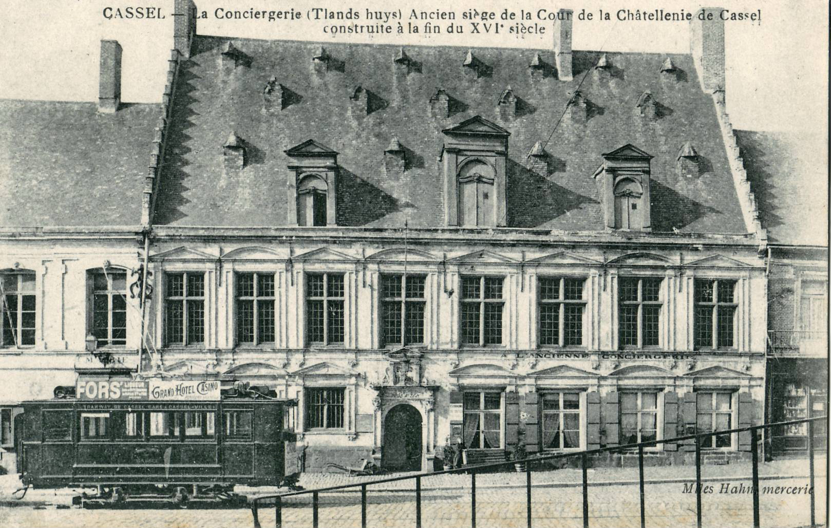 Caret postale ancienne éditée par Mlles Hahn, mercerie : CASSEL - La Conciergerie (Tland huis). Ancien siège de la Cour de la Châtellenie de Cassel, construite au XVIe siècle